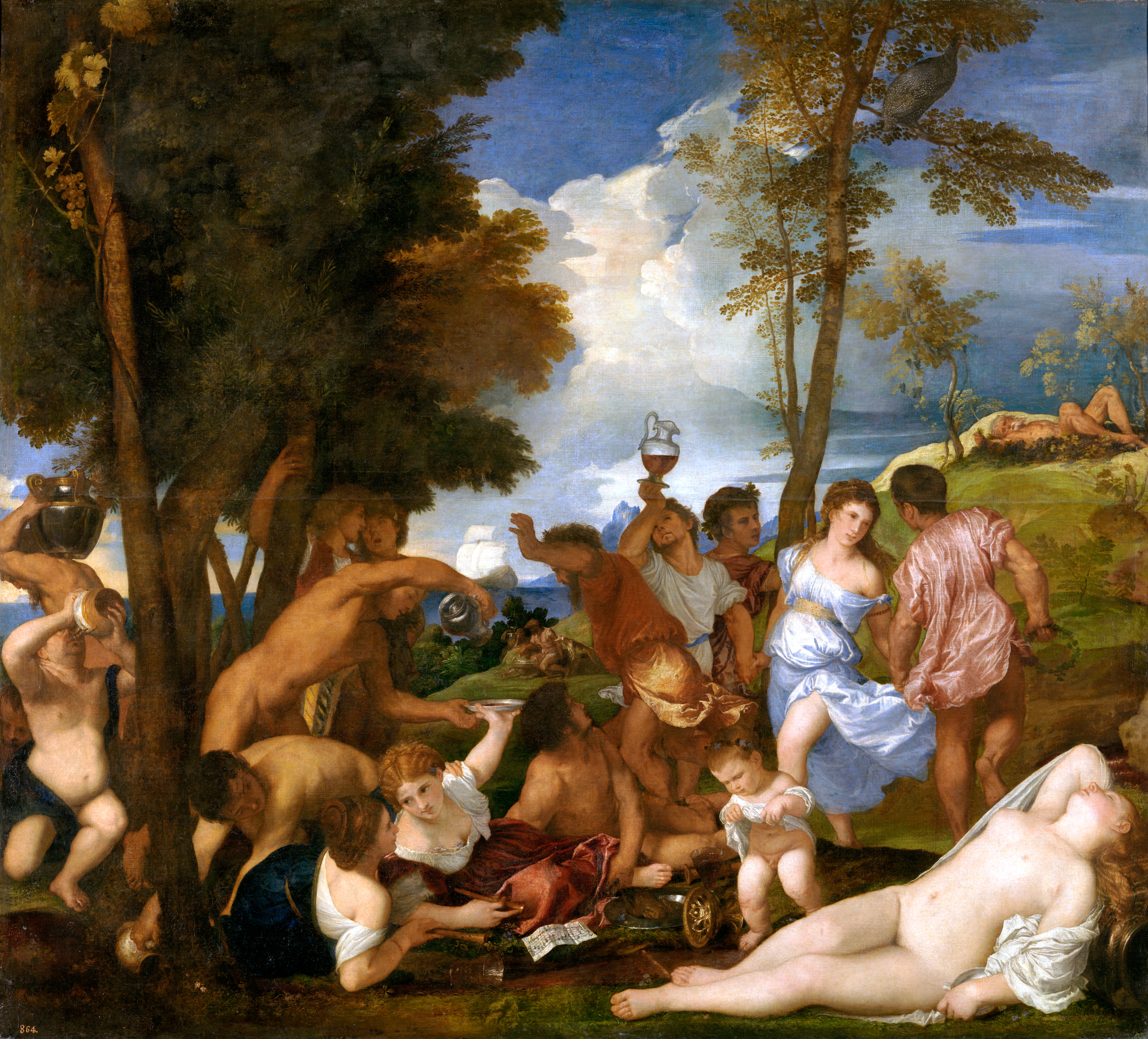 The island of Andros was so favored by Bacchus that a stream flew with wine. Gods, men and children celebrate the effects of wine, whose consumption, in Philostratus´ words, makes men rich, dominant, generous to their friends, handsome and four cubits high. A nude nymph lies in the foreground, and Silenus in the background. The music on the score in the lower center of the composition has been attributed to Adriaen Willaert, a Flemish composer active in the Court of Ferrara. Its lyrics, Qui boyt et ne reboyt il ne seet que boyre soit (“He who drinks and doesn't drink again, doesn't know what drinking is”.) refer to the celebration of wine.